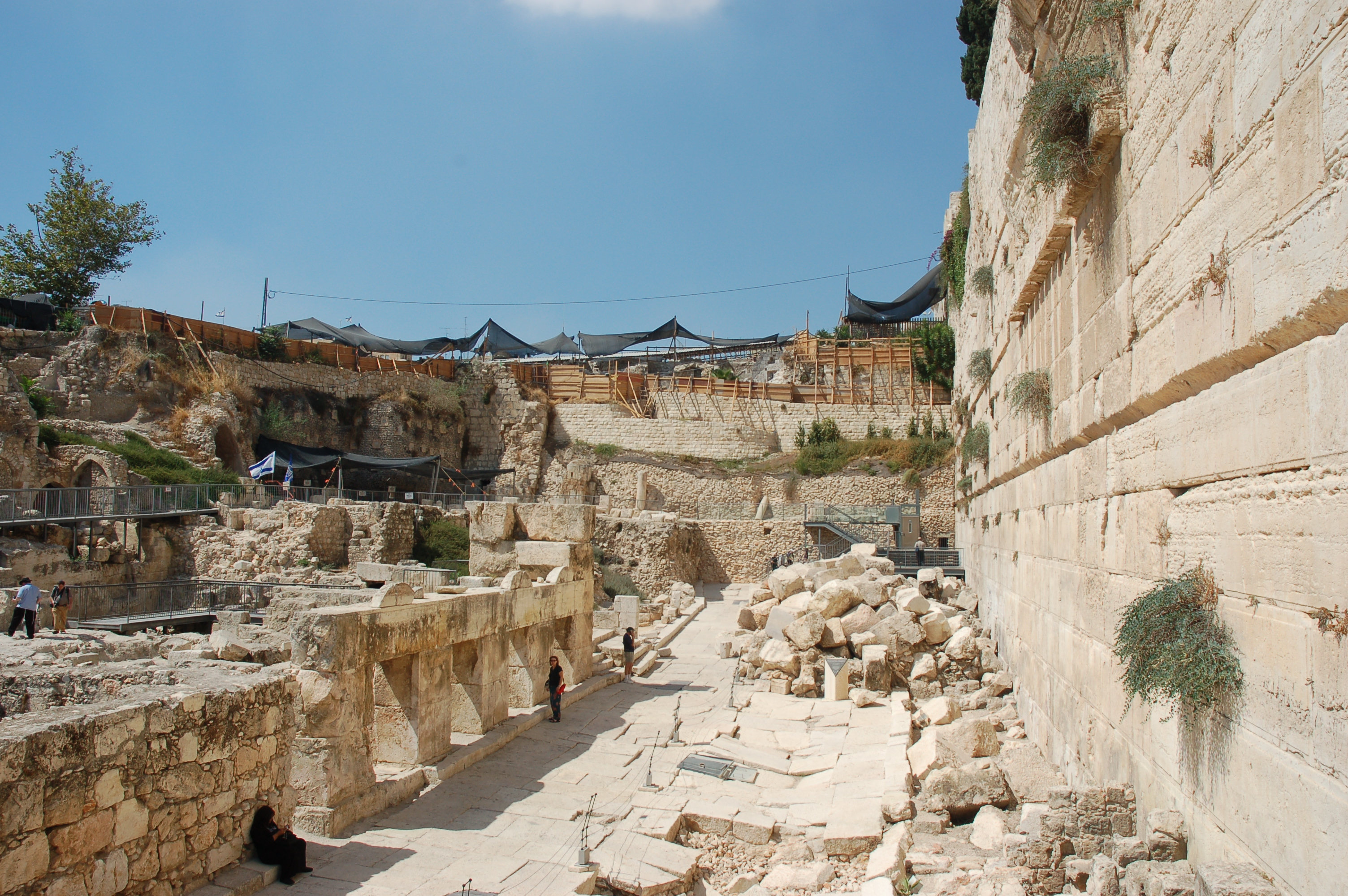 Archeological site outside the southwest corner of the Temple Mount in Jerusalem's Old City. Certain fundamentalist organizations with an agenda have challenged the new survey work at the top (required before the reconstruction of a dilapidated pedestrian bridge entering the Temple Mount), claiming that it endangers the foundations. Decide for yourselves. (What don't they want you to know?) - Jerusalem - 29 August 2007